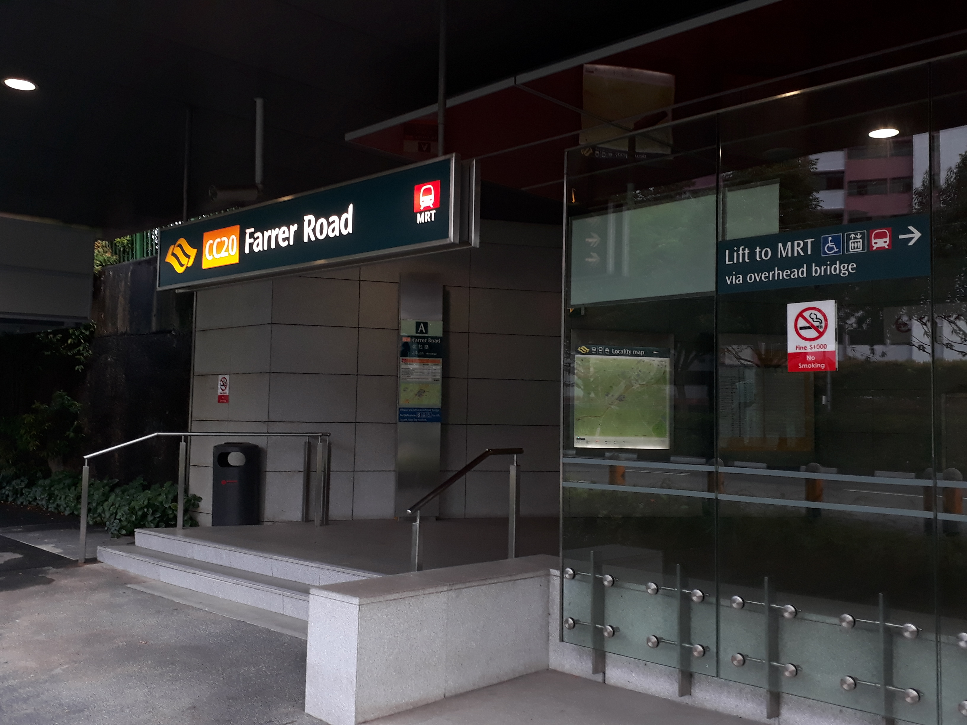 Exit A of Farrer Road